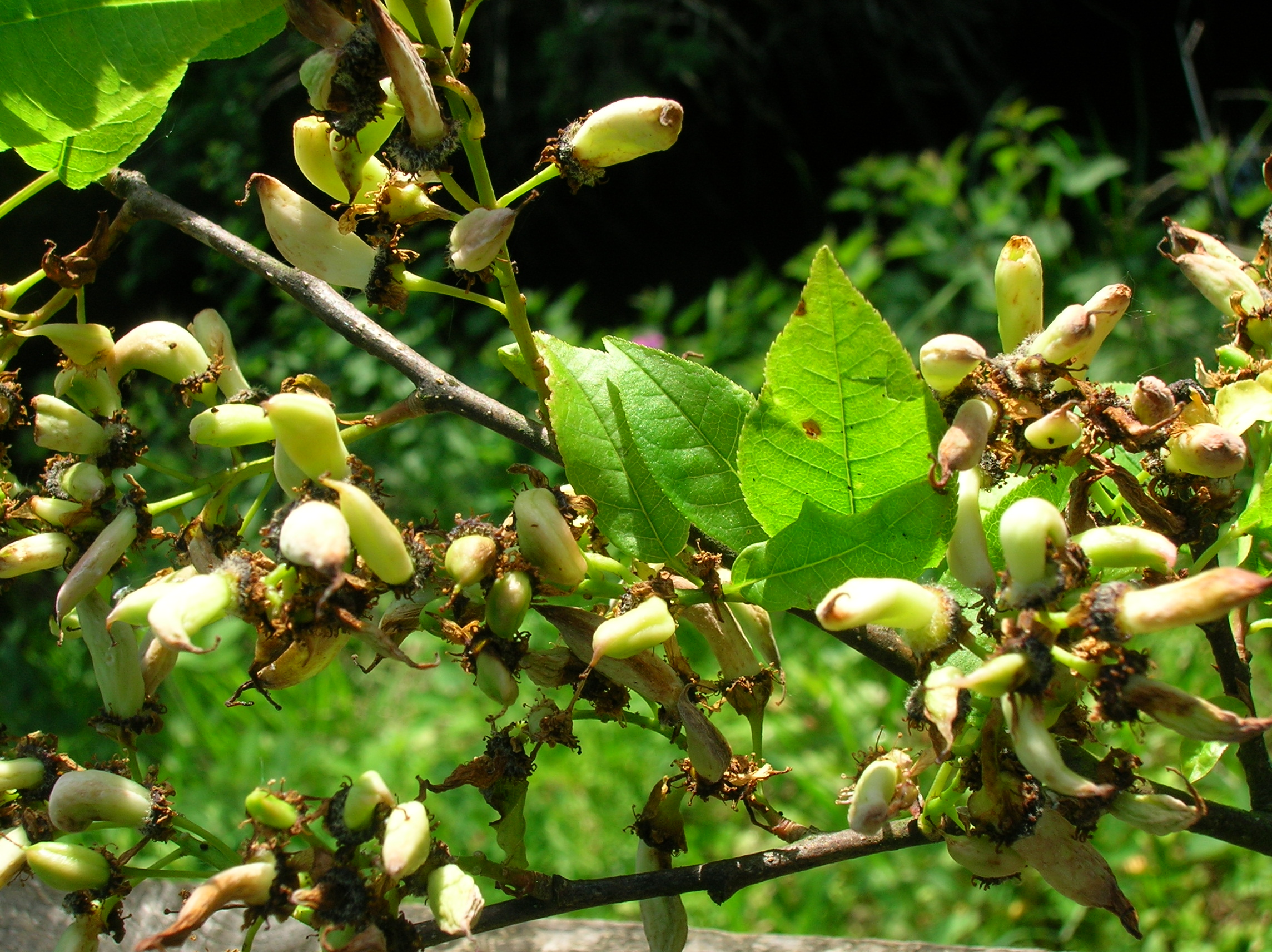 Bird Cherry, Prunus padus with fruit galled by Taphrina padi at Dalgarven Mill, North Ayrshire, Scotland.